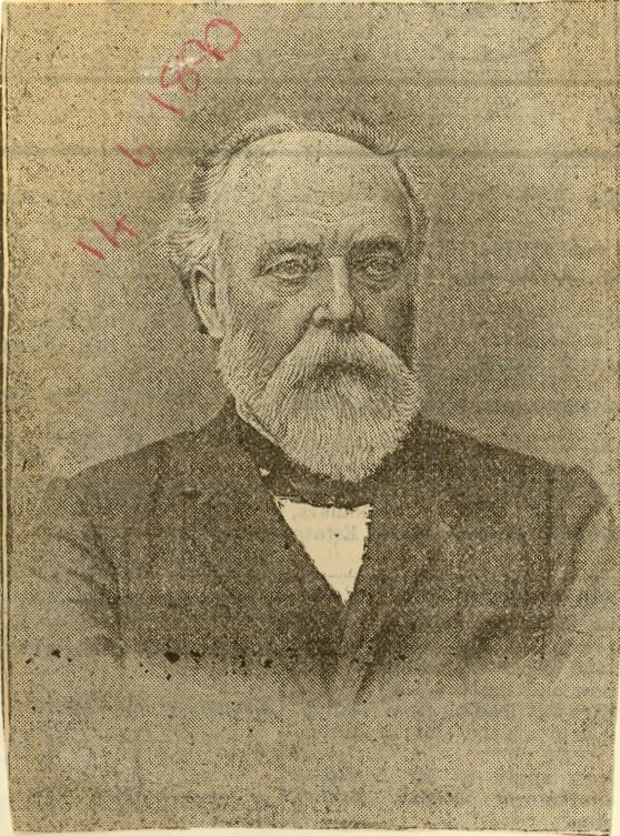 William Porritt was chairman of the St Anne's on the Sea Land and Building Company from 1881 -1896. He worked with his father in developing the firm of Joseph Porritt and Sons and ran Sunnybank Mill and Higher Mill in Helmshore